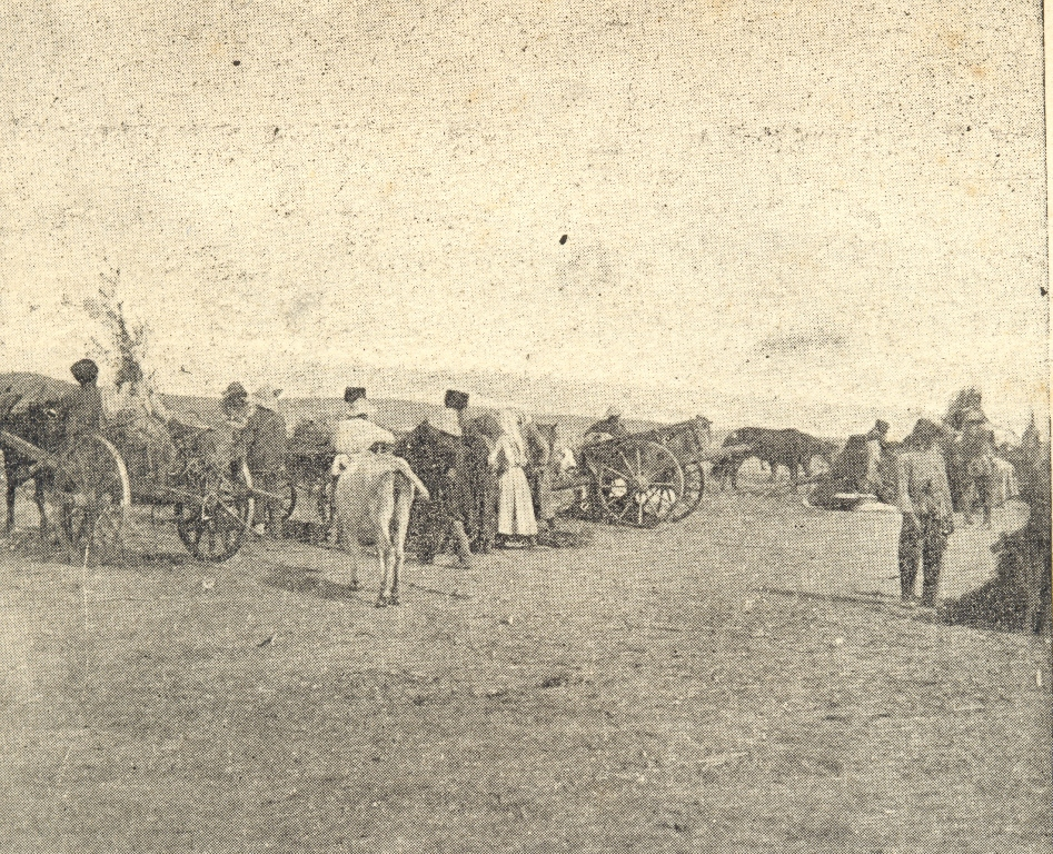 Bazaar near the village of Ekazhevo